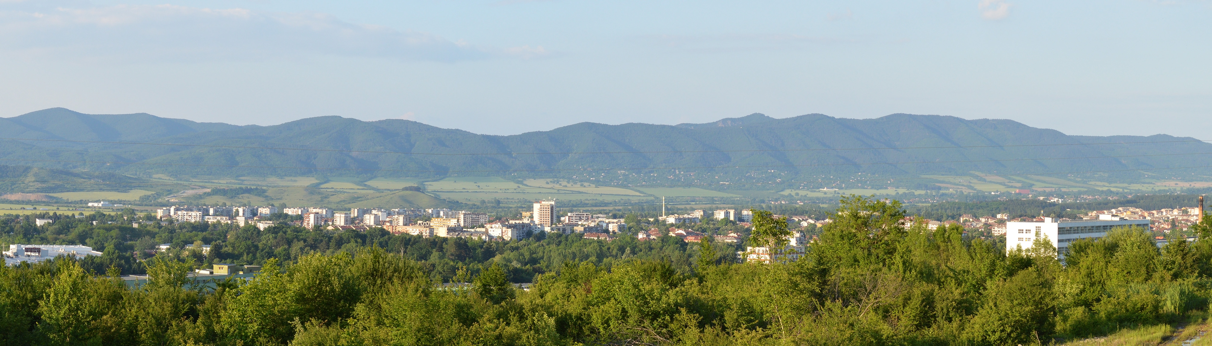 A panorama over Botevgrad facing north-east from the Shuntova chuka ridge of Etropolska mountain. Visible is the Lakavitsa ridge of Predbalkan (Prebalkan).